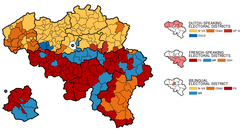 Electoral district map of the Belgian general election, 2010. Winning parties in electoral cantons (thinner line). The eleven Belgian electoral districts are accentuated with a thicker line. The Brussels-Capital Region, a part of the electoral district Brussels-Halle-Vilvoorde, is enlarged.